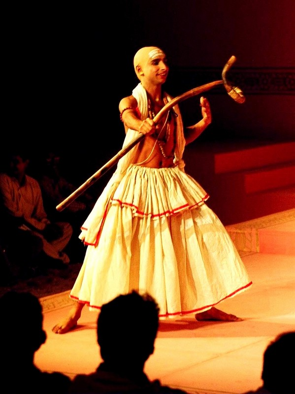 2nd image to be added in Theatre section of my article Inaamulhaq